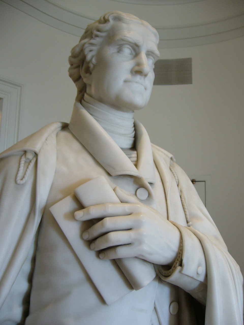 1860s statue of Thomas Jefferson in the Rotunda at the University of Virginia